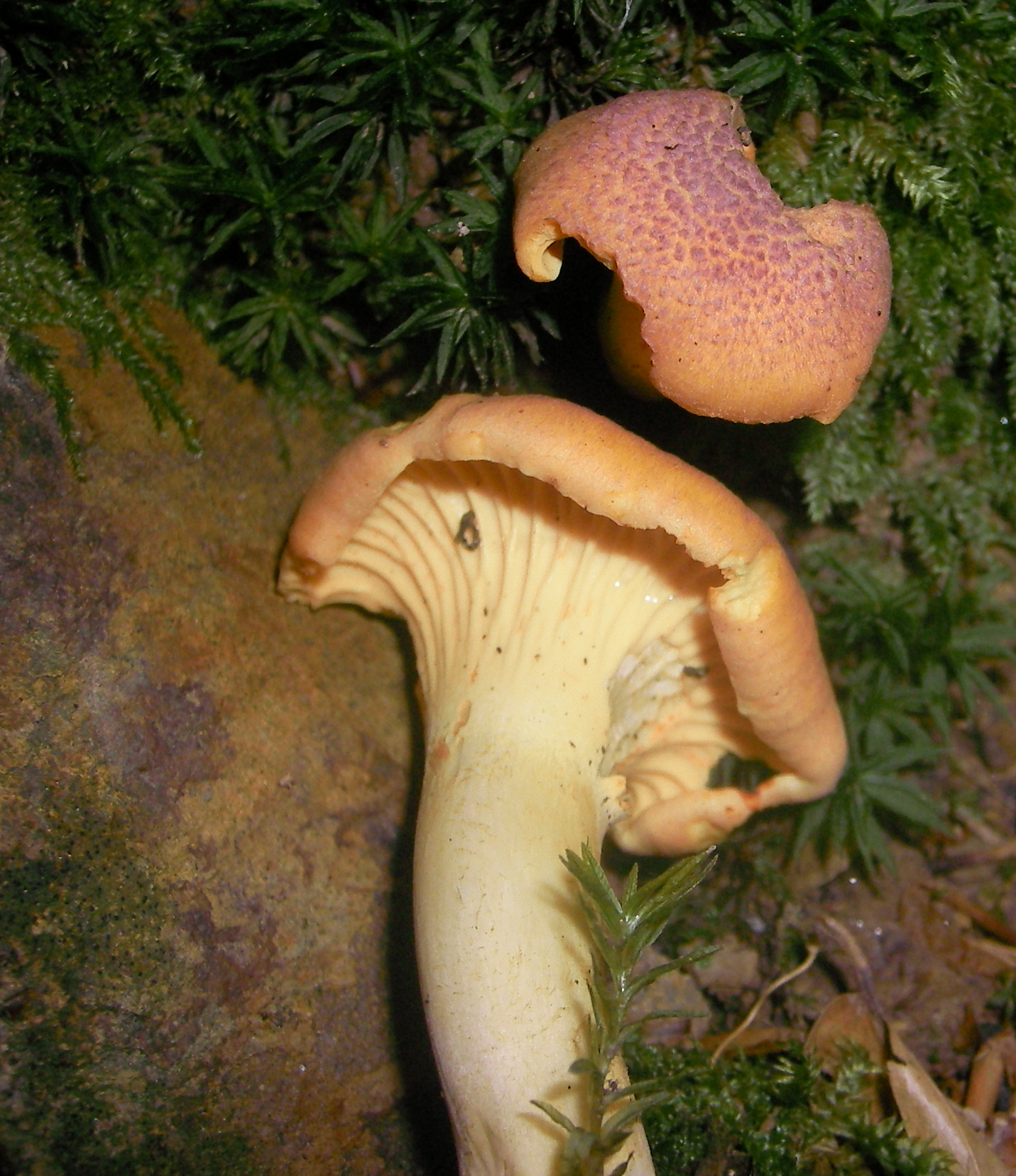 Mushroom